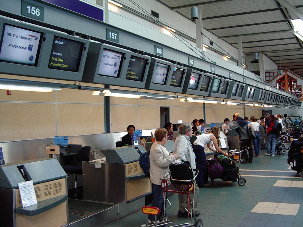 Airport check-in (the title is German meaning "passenger handling") at Vancouver International Airport, British Columbia, Canada